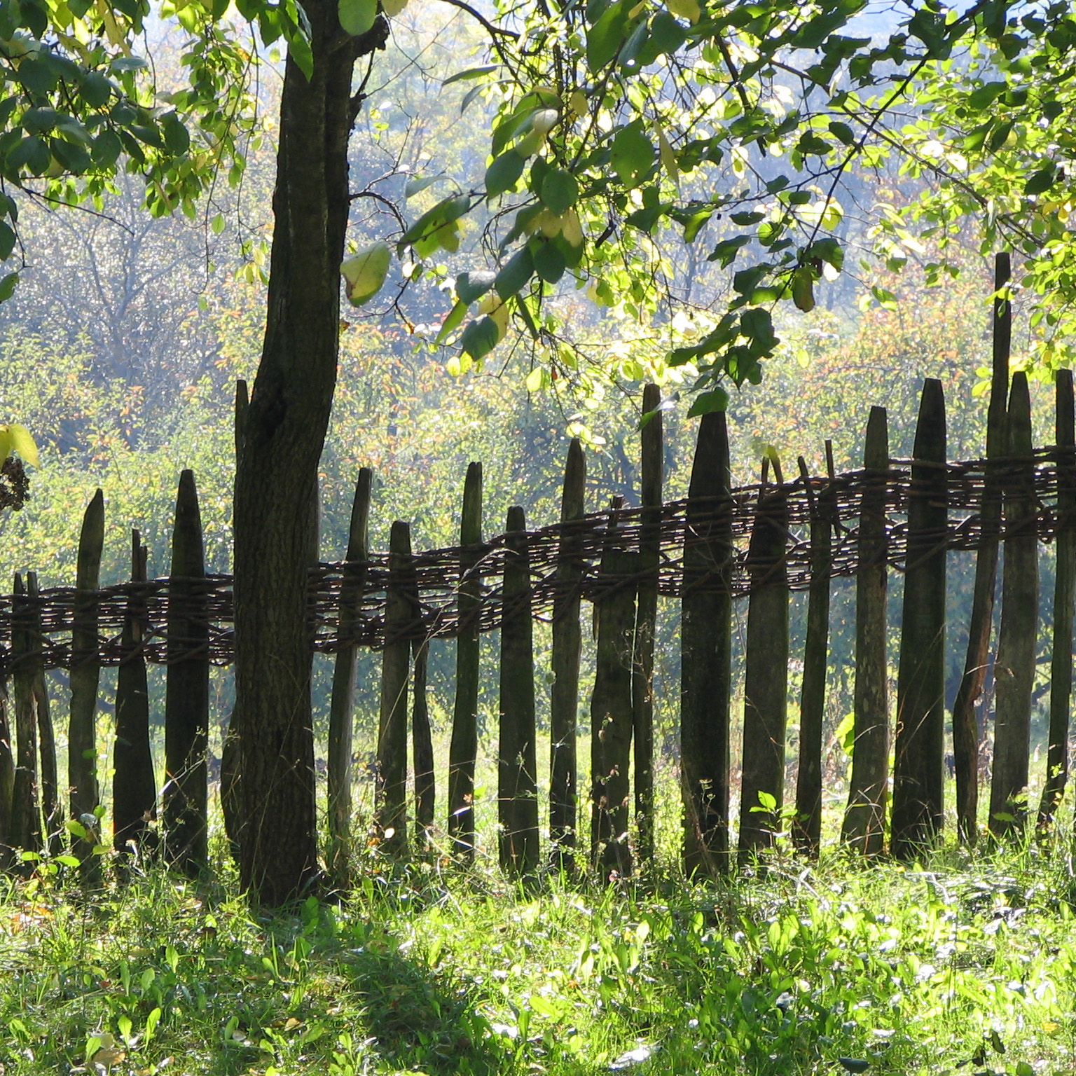 Wattle fence, West Serbia